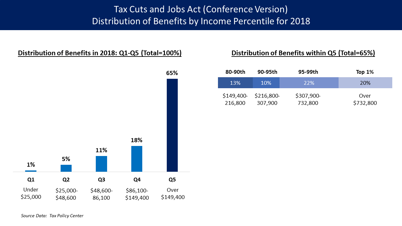 Distribution of benefits by income percentile under the Tax Cuts and Jobs Act of 2017 (Conf. Cmte version is latest) based on data from the Tax Policy Center.